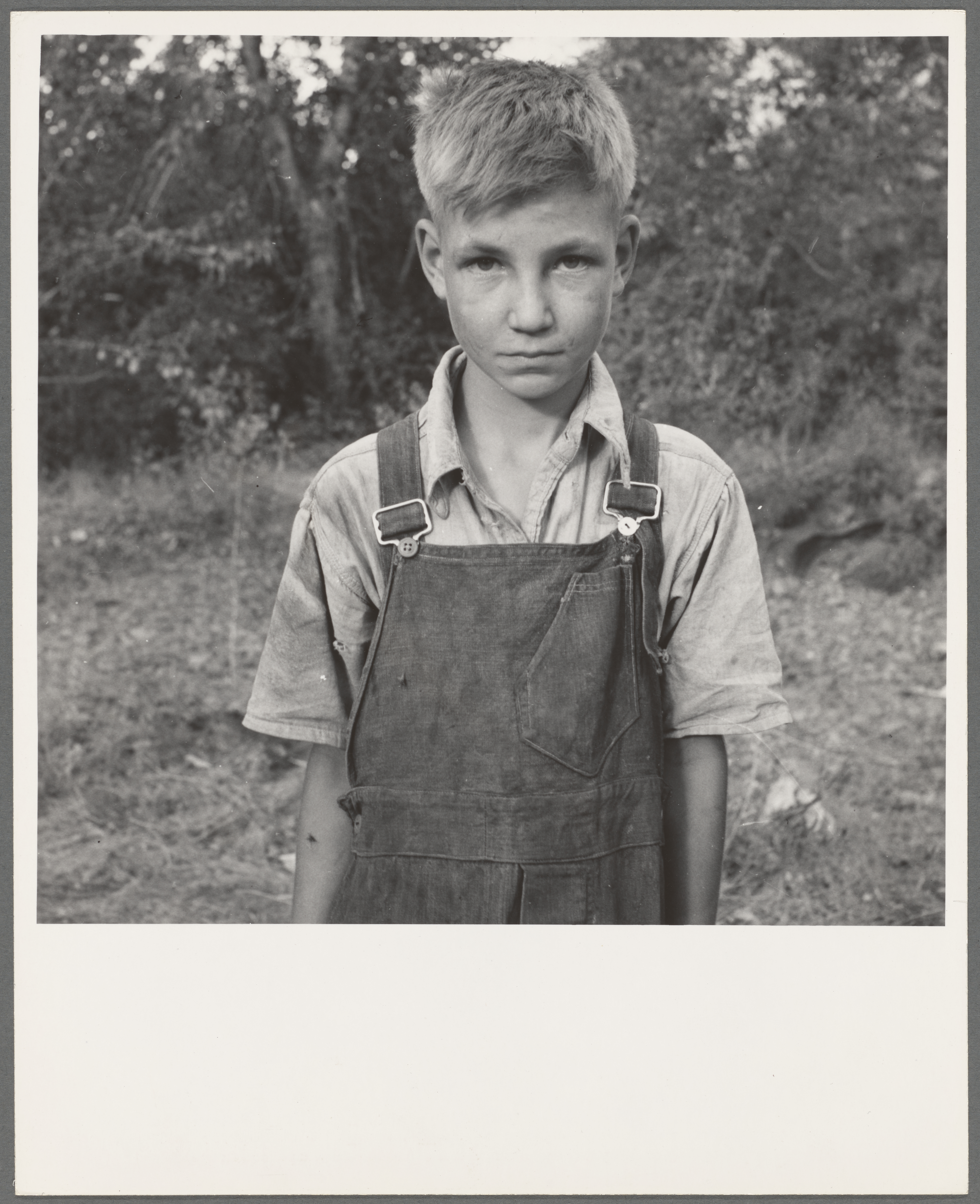 TMS ID: 24779 TMS Object Number: 020345-E Universal Unique Identifier (UUID): 4237c770-9760-0136-61ba-025706d15eb4